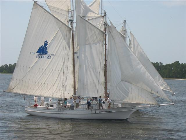 Biloxi Schooner replica Glenn L. Swetman